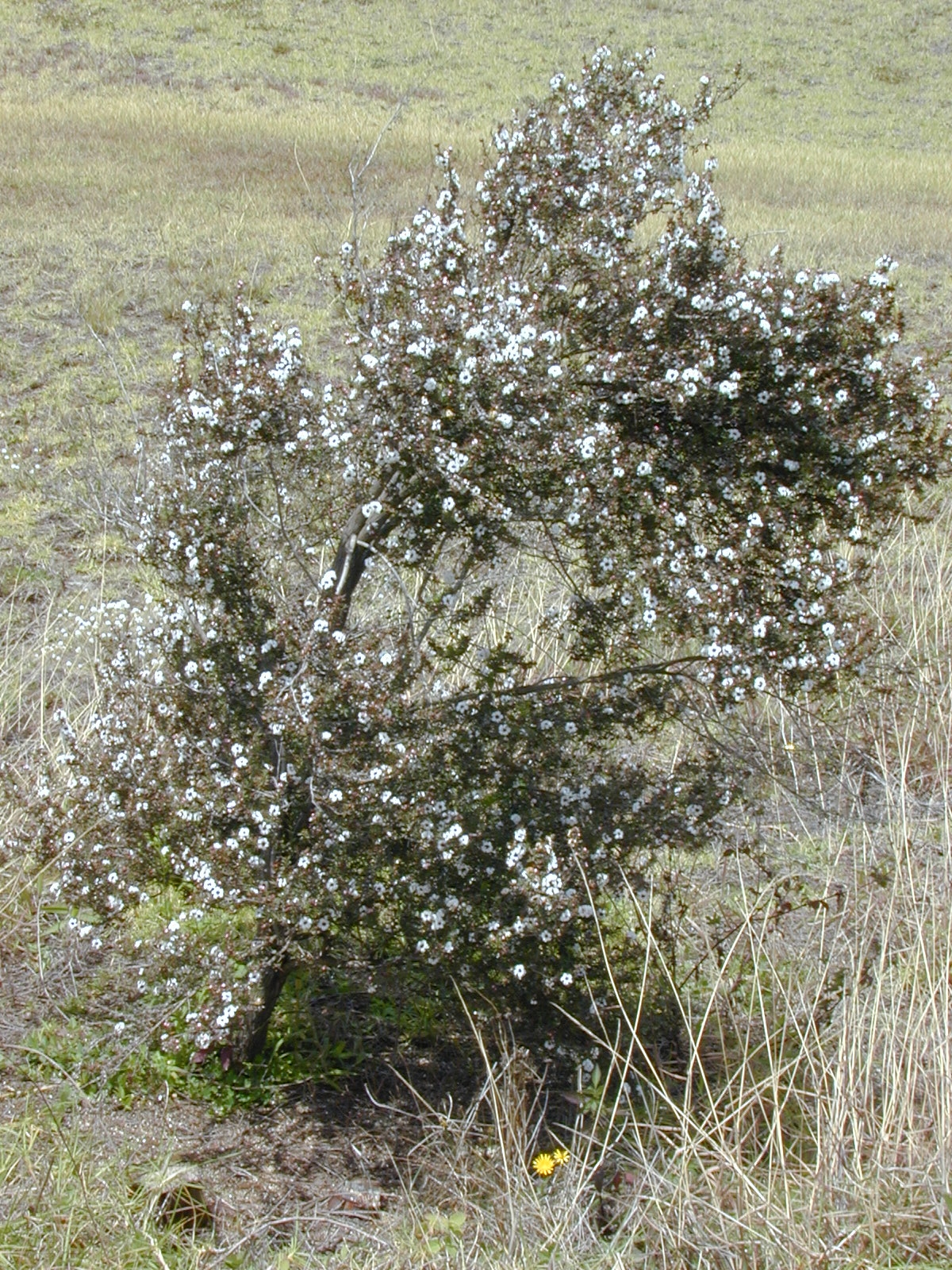 Leptospermum scoparium (habit in pasture). Location: Maui, Kula